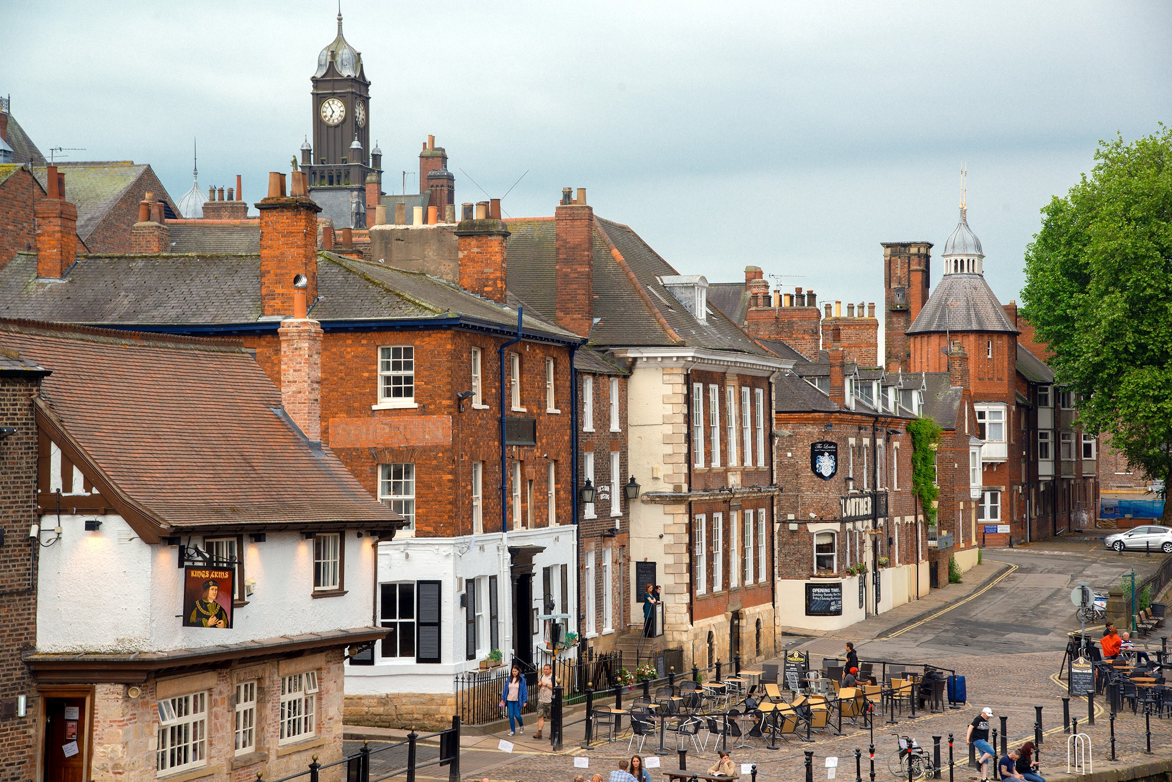 York, Cumberland St along the river